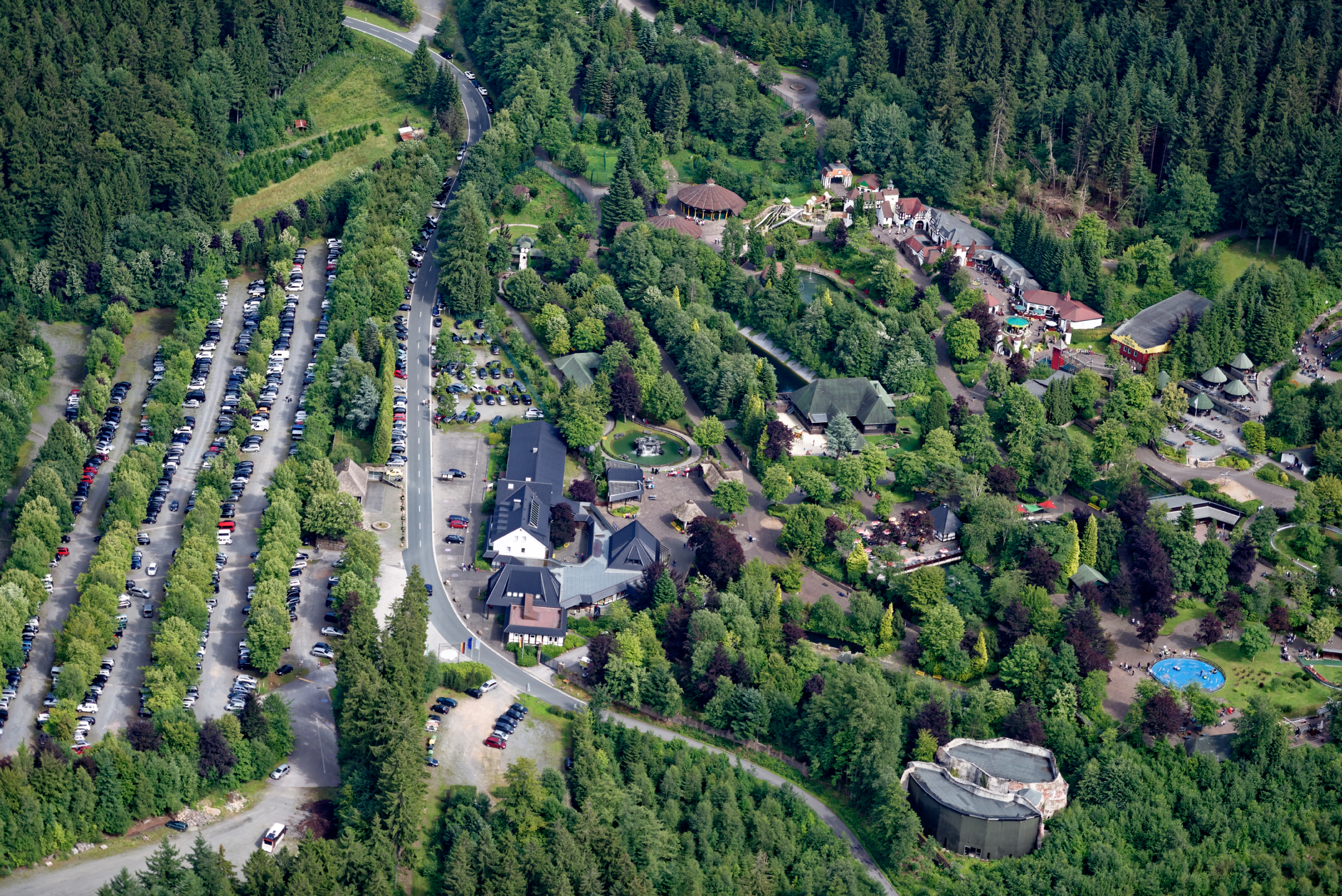 Panorama Park The making of this document was supported by the Community-Budget of Wikimedia Germany.